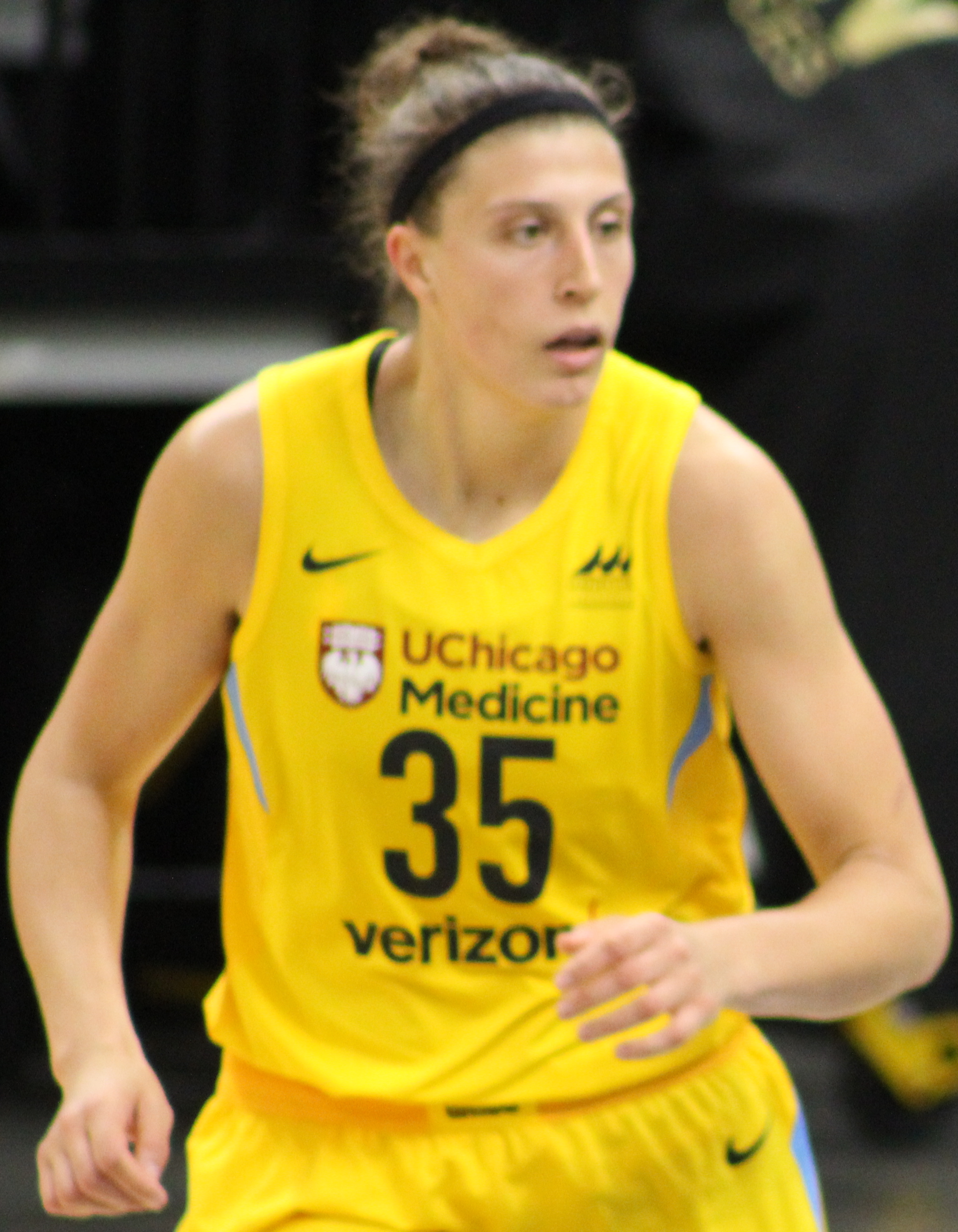 Jordan Hooper of the Chicago Sky in a preseason game with the Minnesota Lynx